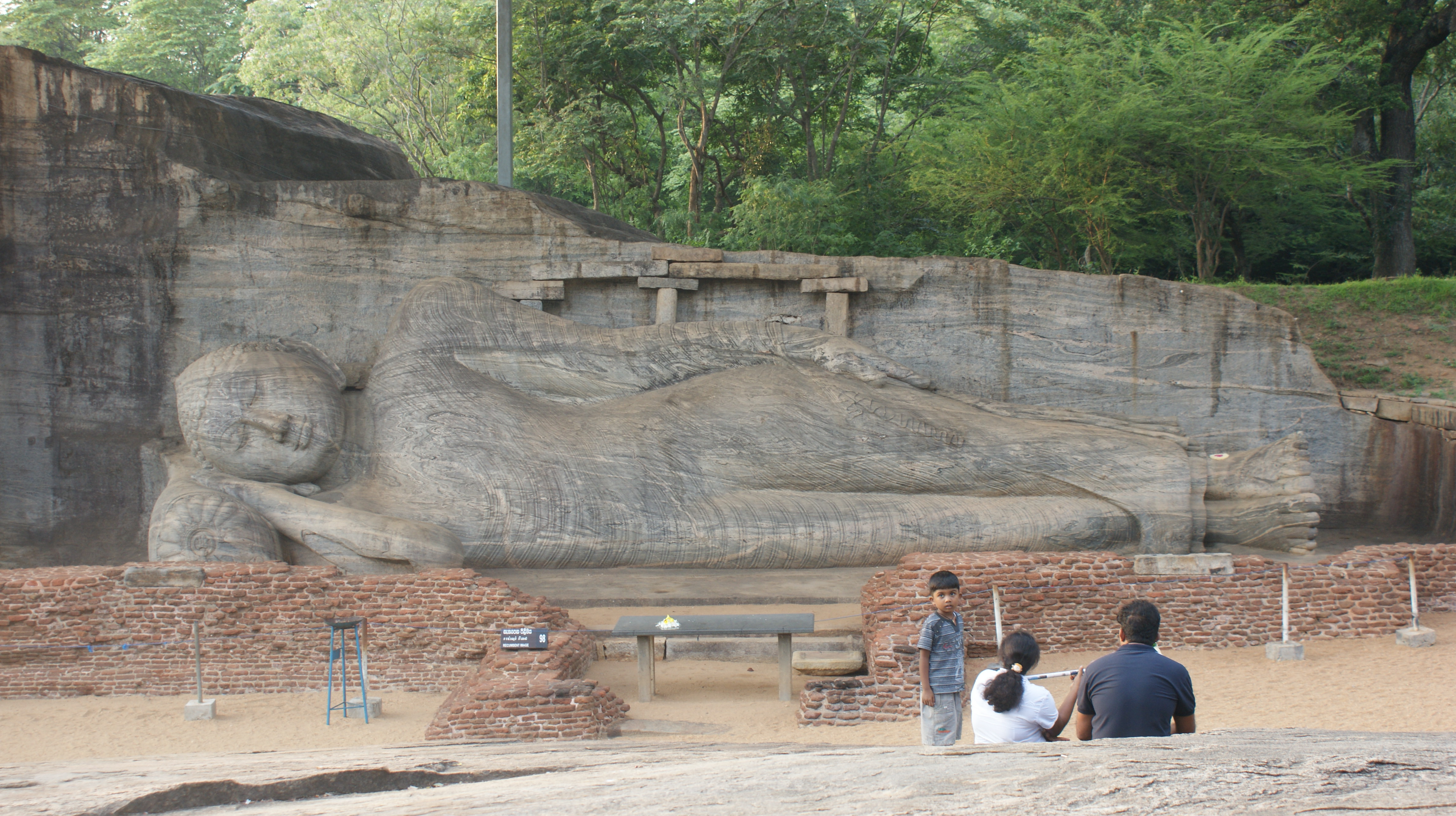 Photo taken during a recent trip to Polonnaruwa, Sri Lanka